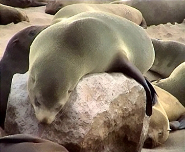 South African Fur Seal, Arctocephalus pusillus